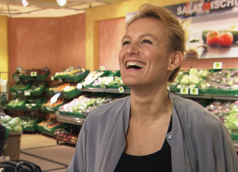 Lauren Wildbolz, born on March 17, 1981, is a food activist and a former art student. She wrote the book "Vegan Kitchen and Friends", which was published in 2014